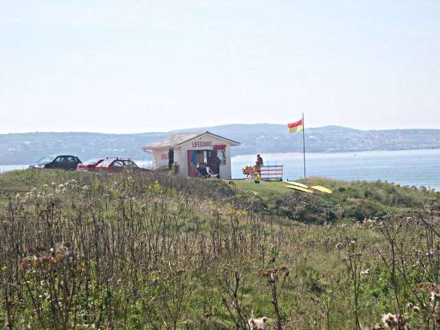 Lifeguard station on Gwithian Towans. The word "towans" in a Cornish place name denotes dunes. St Ives can be seen in the distance across the bay.